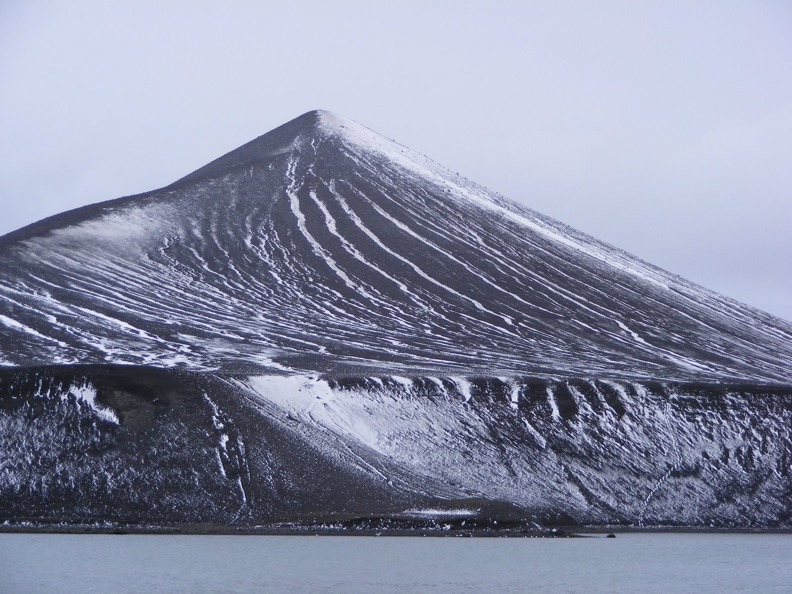 Cross Hill viewed from Stancomb Cove in Telefon Bay.